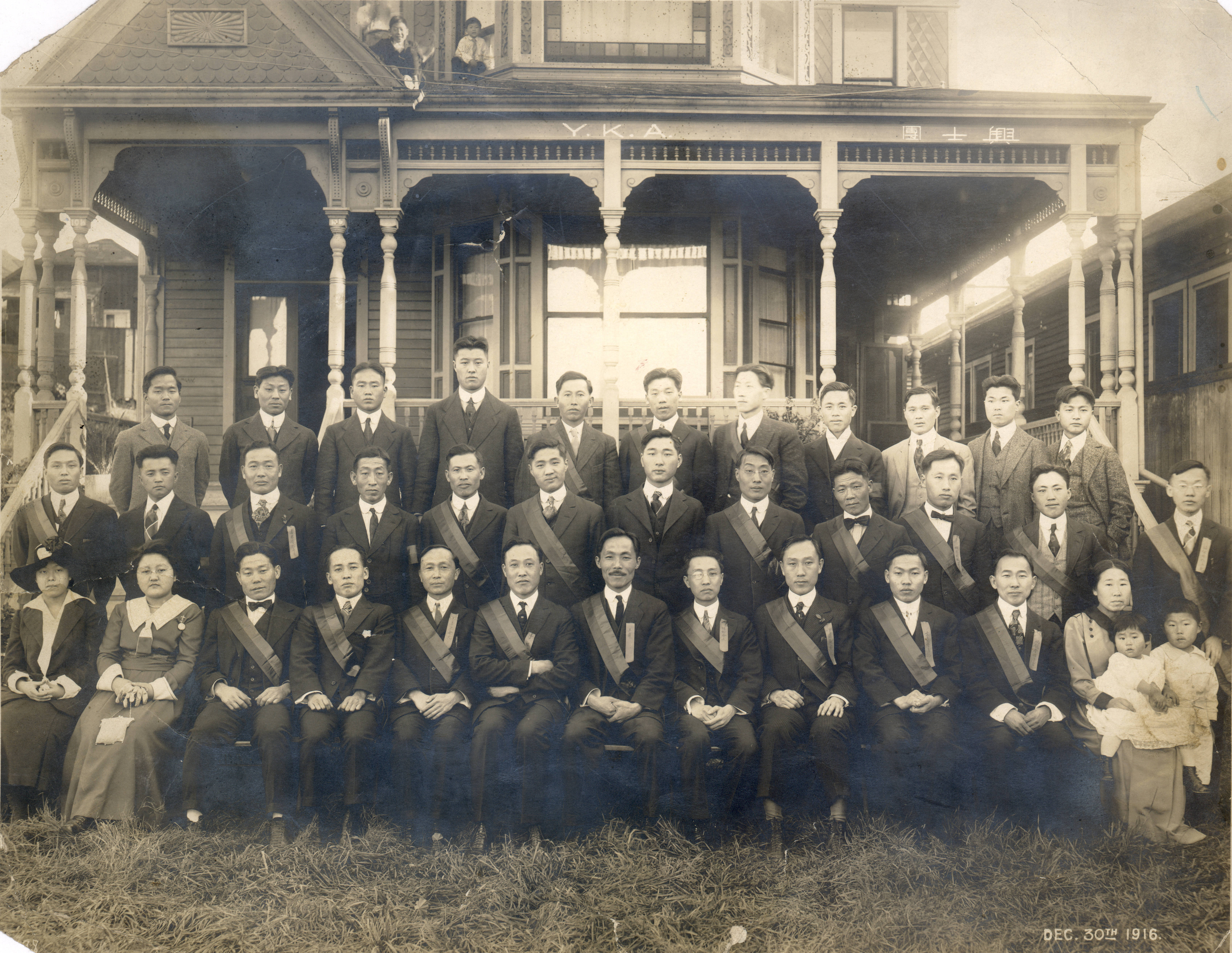 Hungsadan meeting (3rd : 1916 : Los Angeles, Calif.) Title (alternate): Hungsadan members in front of the An residence / Kungminhoe house on Temple Street 1916 Publisher (of the digital version): University of Southern California. Libraries Repository name: East Asian Library, University of Southern California Series: Marsha Oh Legacy record ID: kada-m23414 Archival file: kada_Volume9/KADA-Ohmarsha021.tiff Rights: © 2000 University of Southern California University Libraries; May not be copied without permission of the Korean Heritage Library, University of Southern California.; From the photographic collection of the Korean American Archive; Korean American Archive Filename: KADA-Ohmarsha021 Geographic subject: Los Angeles, CA Access conditions: Send requests to East Asian Library, University of Southern California, Los Angeles, CA 90089-0154 or . Repository Coverage date: Taken on 30 December 1916 Repository address: Los Angeles, CA 90089-1825 Part of collection: Korean American Digital Archive Type: images Part of subcollection: Korean American Archive Photograph Set Contributing entity: University of Southern California Subject (corporate name): Hungsadan; Young Korean Academy